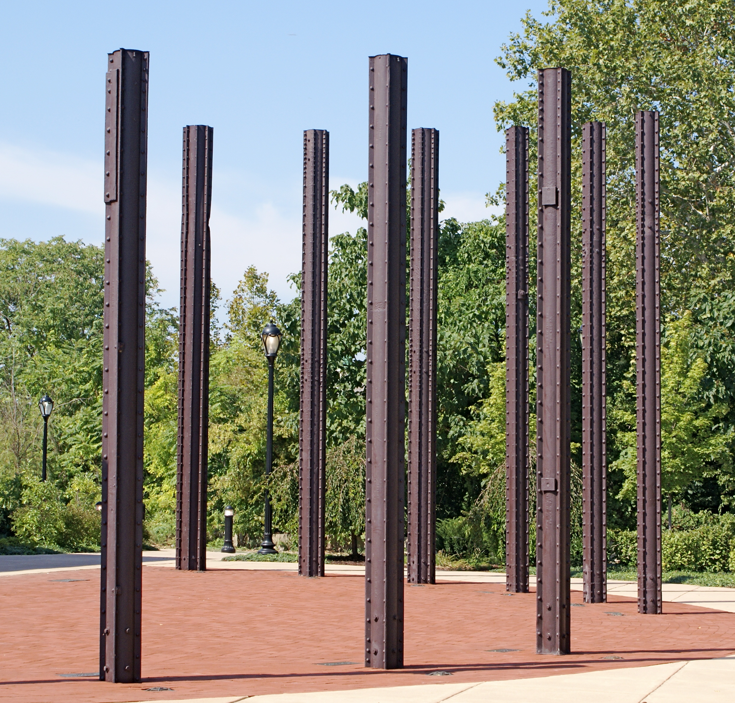 An arc of Phoenix columns outside the foundry building of the former Phoenix Iron Works site. The columns were removed from the Stegmaier Brewery building when it was torn down.